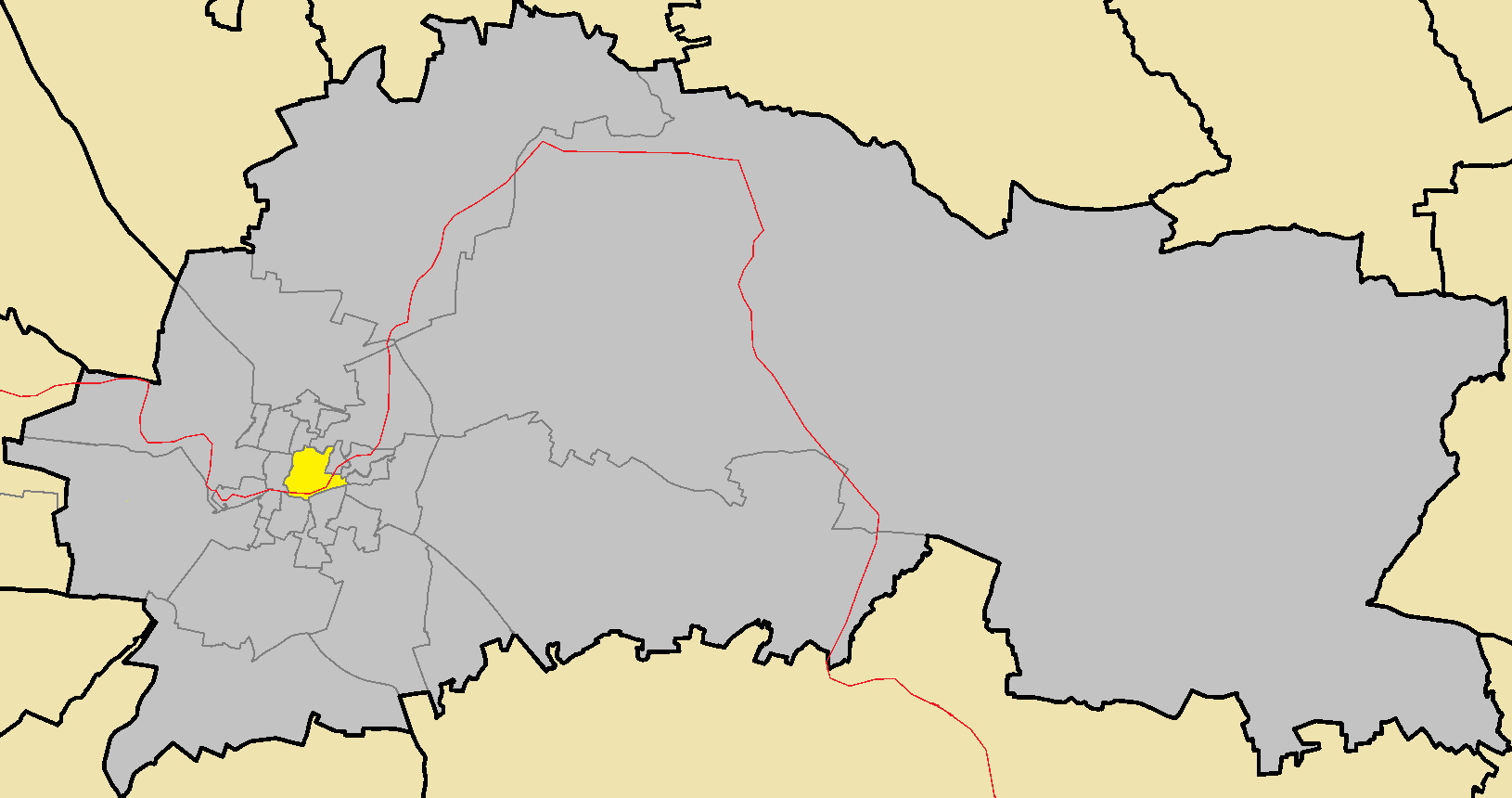 Agia Sofia in Nicosia Municipality (de jure).